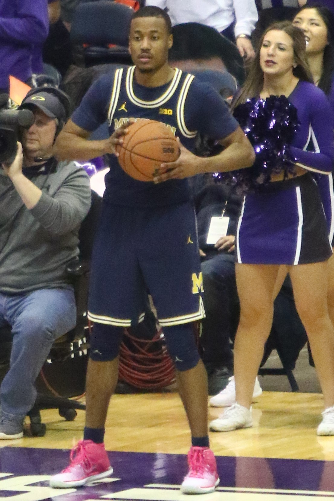 Muhammad-Ali Abdur-Rahkman playing for the w:2017–18 Michigan Wolverines men's basketball team at Allstate Arena